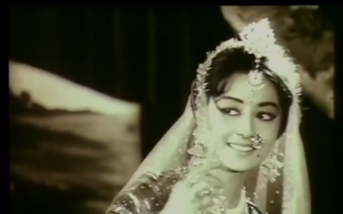 Maitighar screenshot, unknown Nepali actress as Rekha the daughter of central character Maya